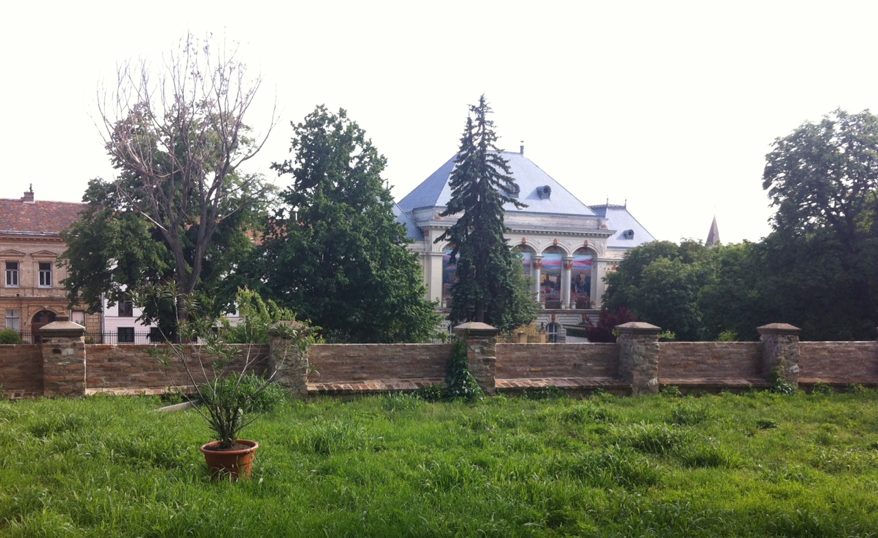 Building of Csontvary Museum, Pécs, Hungary